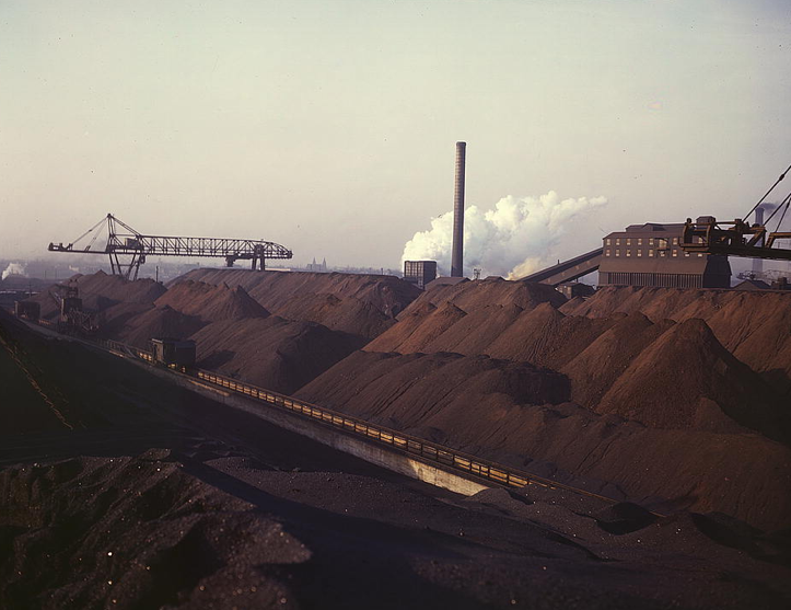 Title: Hanna furnaces of the Great Lakes Steel Coporation, stock pile of coal and iron ore, Detroit, Mich.